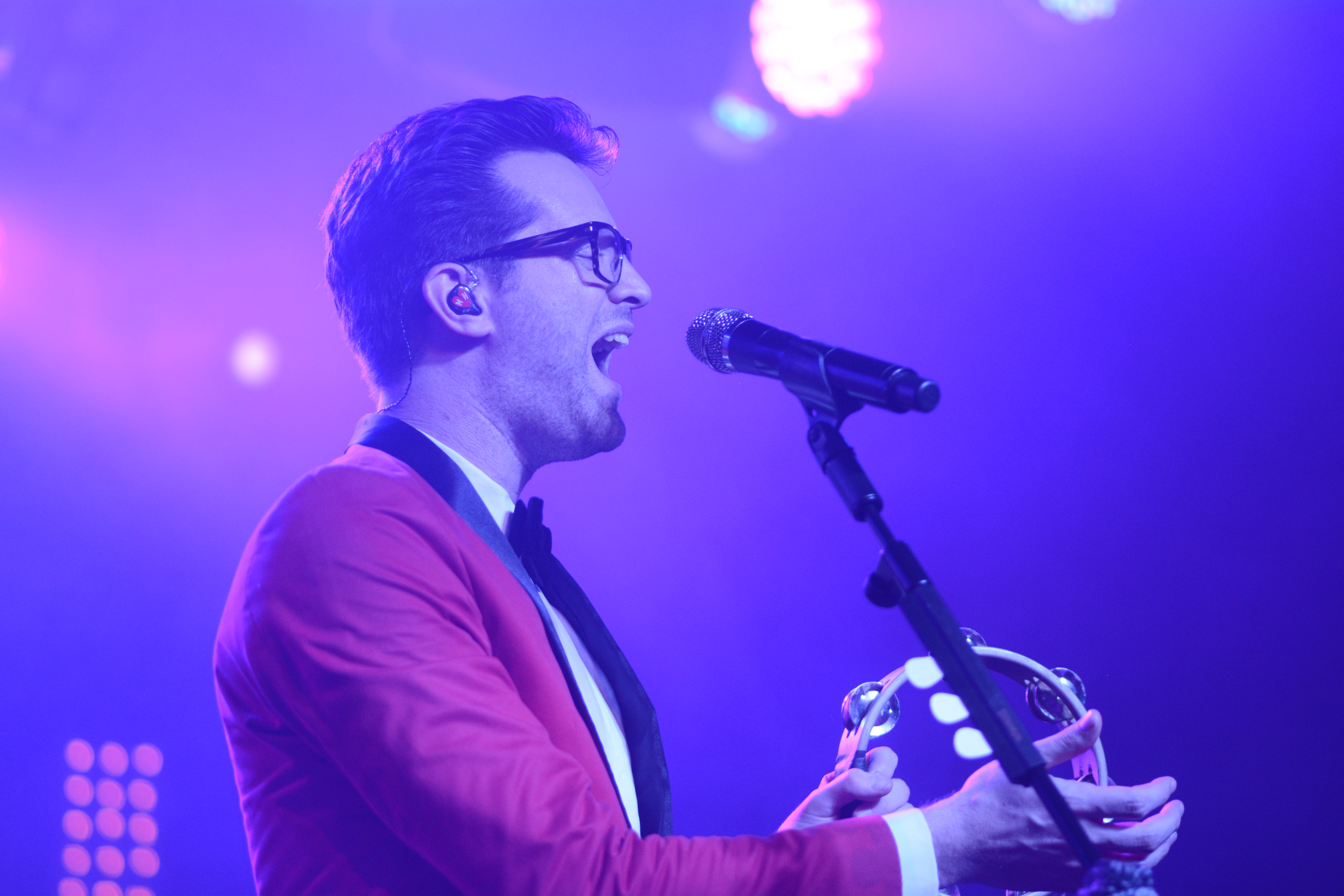 Mayer Hawthorne performing with The County - From "The Mayer Hawthorne Revue" at The Teragram Ballroom. Night 1 of 2 in Los Angeles on 1-18-2016.